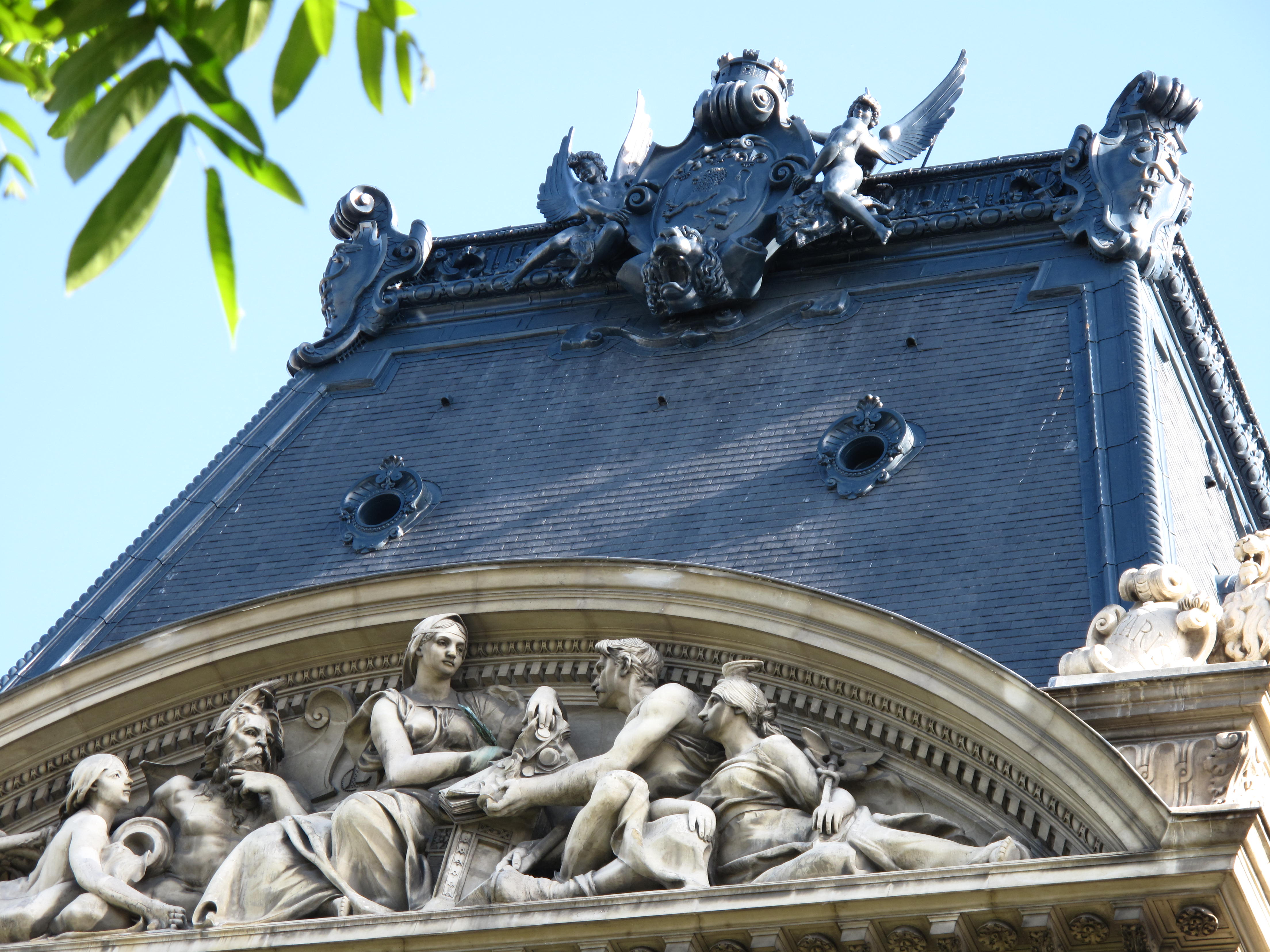 Decorative lead escutcheon at the top of the Credit Lyonnais headquarters in Paris